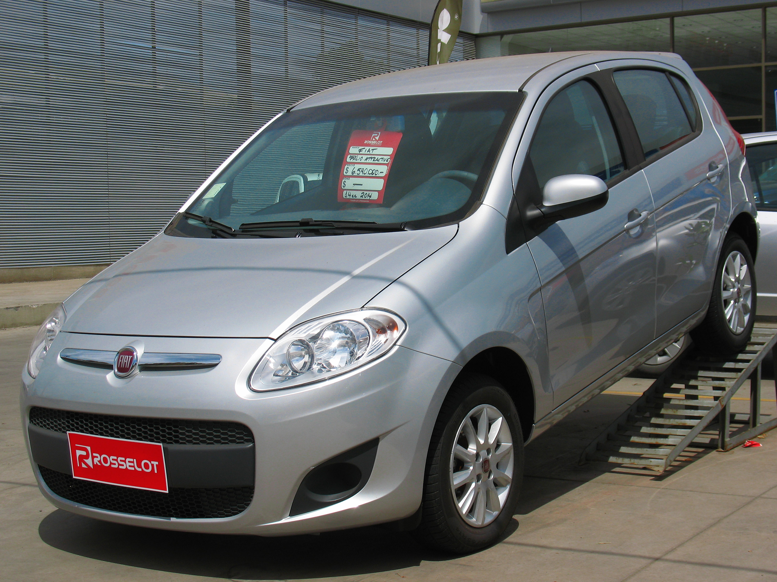 Fiat Palio 1.4 Attractive 2014